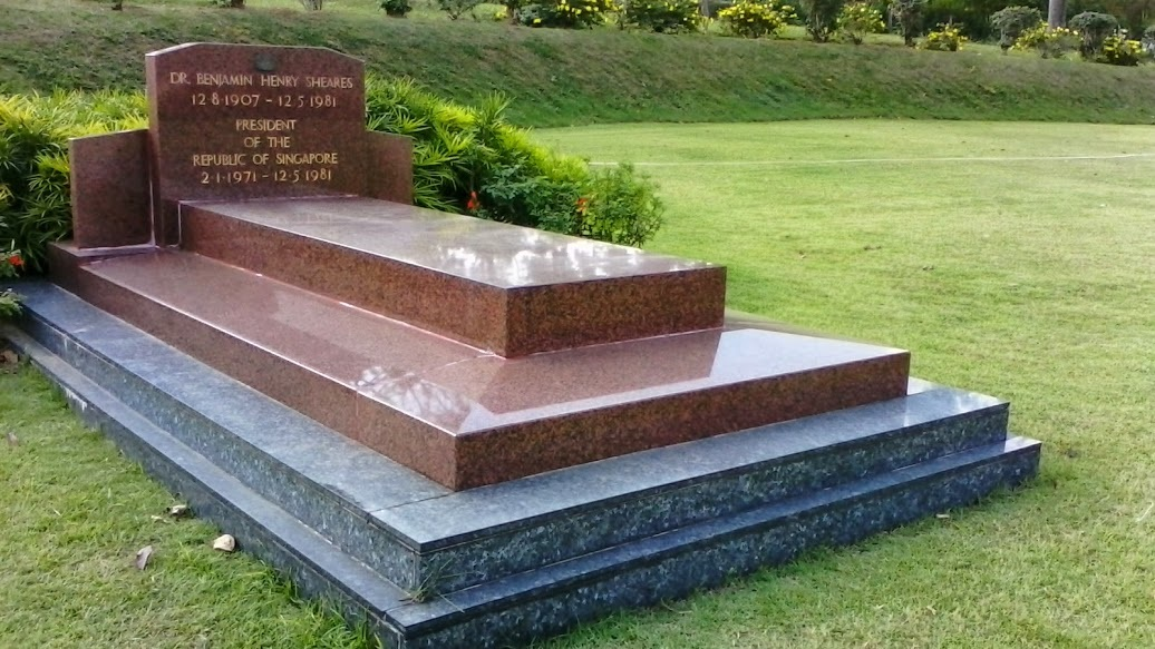 The tomb of the former President of Singapore, Benjamin Sheares, in the Kranji State Cemetery.